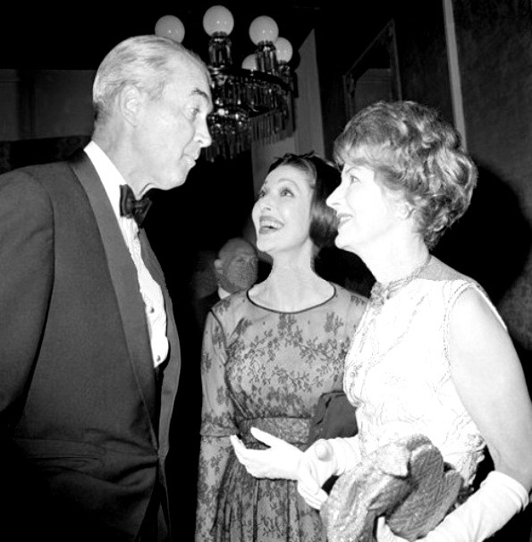 Candid photograph of actors Jimmy Stewart, Irene Dunne, and Loretta Young at a party in August 1962